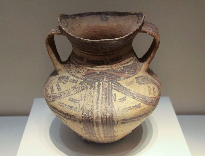 Pottery jar, Xindian culture (ca. 1500–1000 BCE), Gansu and Qinghai. National Museum of China 1956.National Museum of China